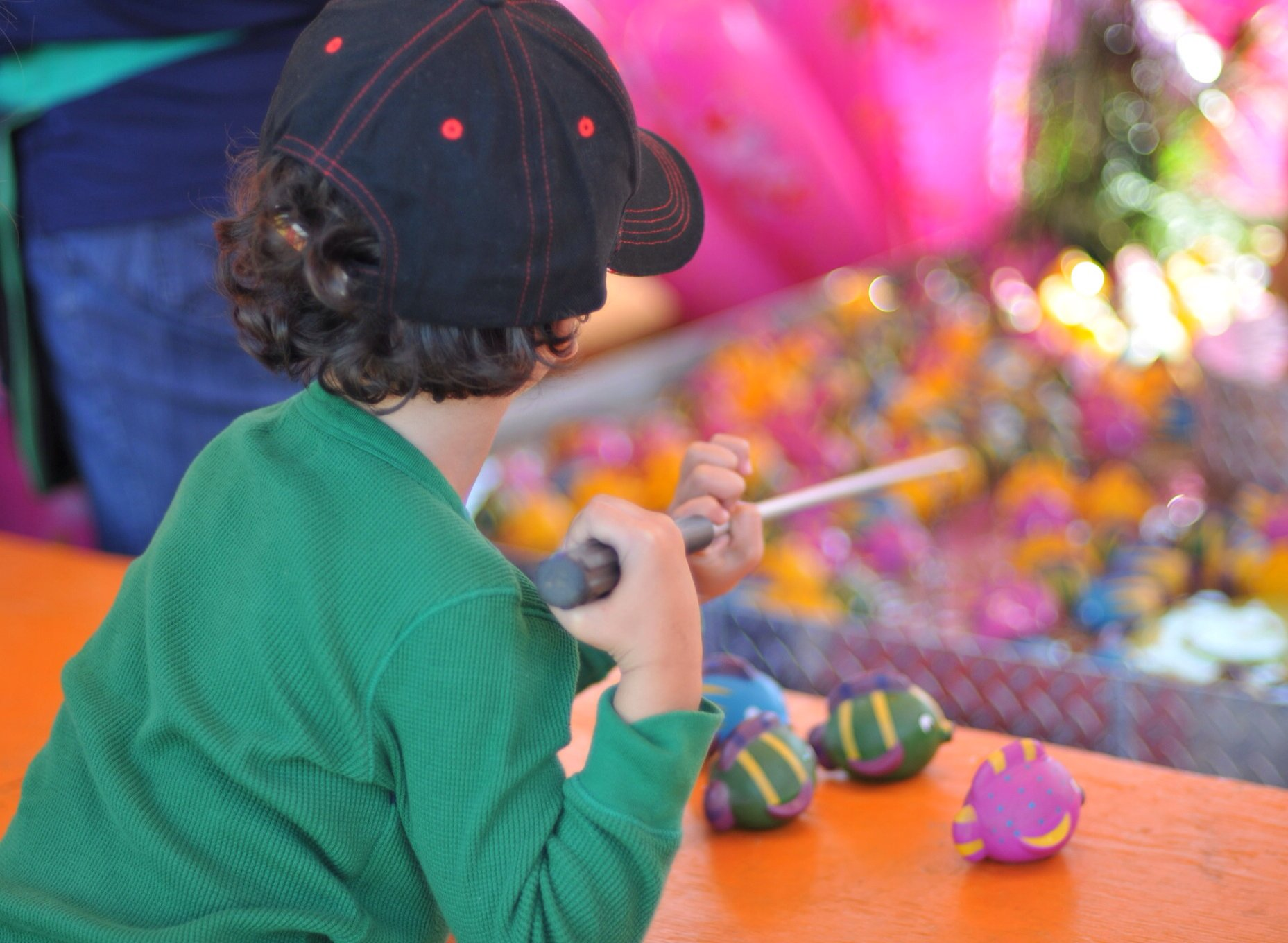 A young boy at the fair fish pond, Rockton World's Fair, Ontario, Canada.